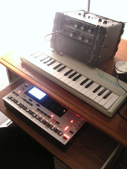 set up in st. paul ... roland microcube, shitty midi kb, monomachine ... not pictured: emu procussion, akai s612 BOSS Micro Cube amp MIDI mini keyboard (similar to MIDISMART U) Elektron Monomachine not in picture E-mu Procussion Akai S612